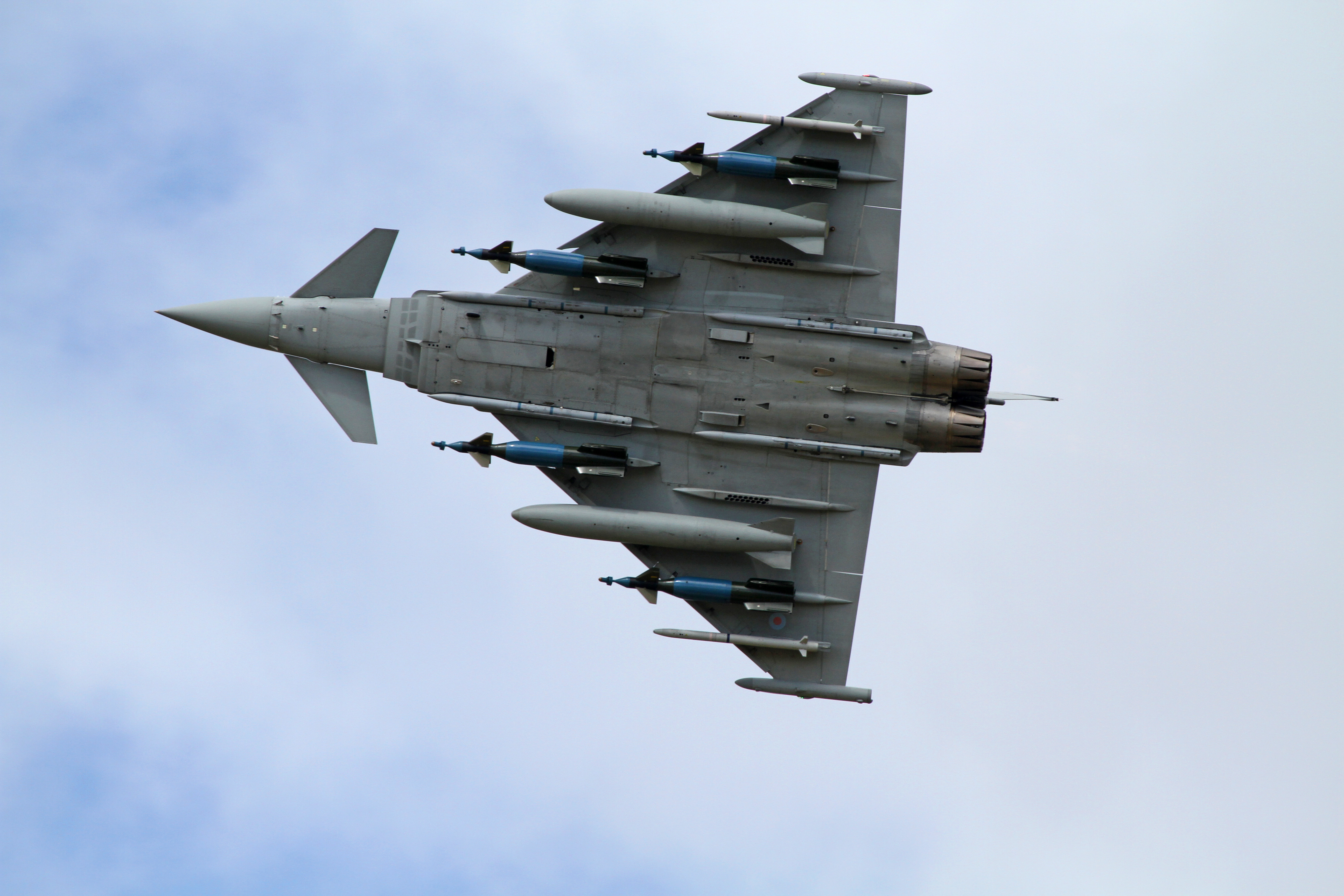 Eurofighter Typhoon FGR4 4